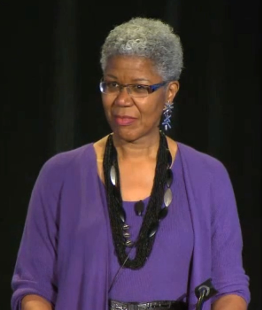 Brenda J. Allen, Professor of Communication at the University of Colorado, speaks at the National Center for Women & Information Technology (NCWIT) Summit Workshop 2012 on Intersectionality/Double Minority.